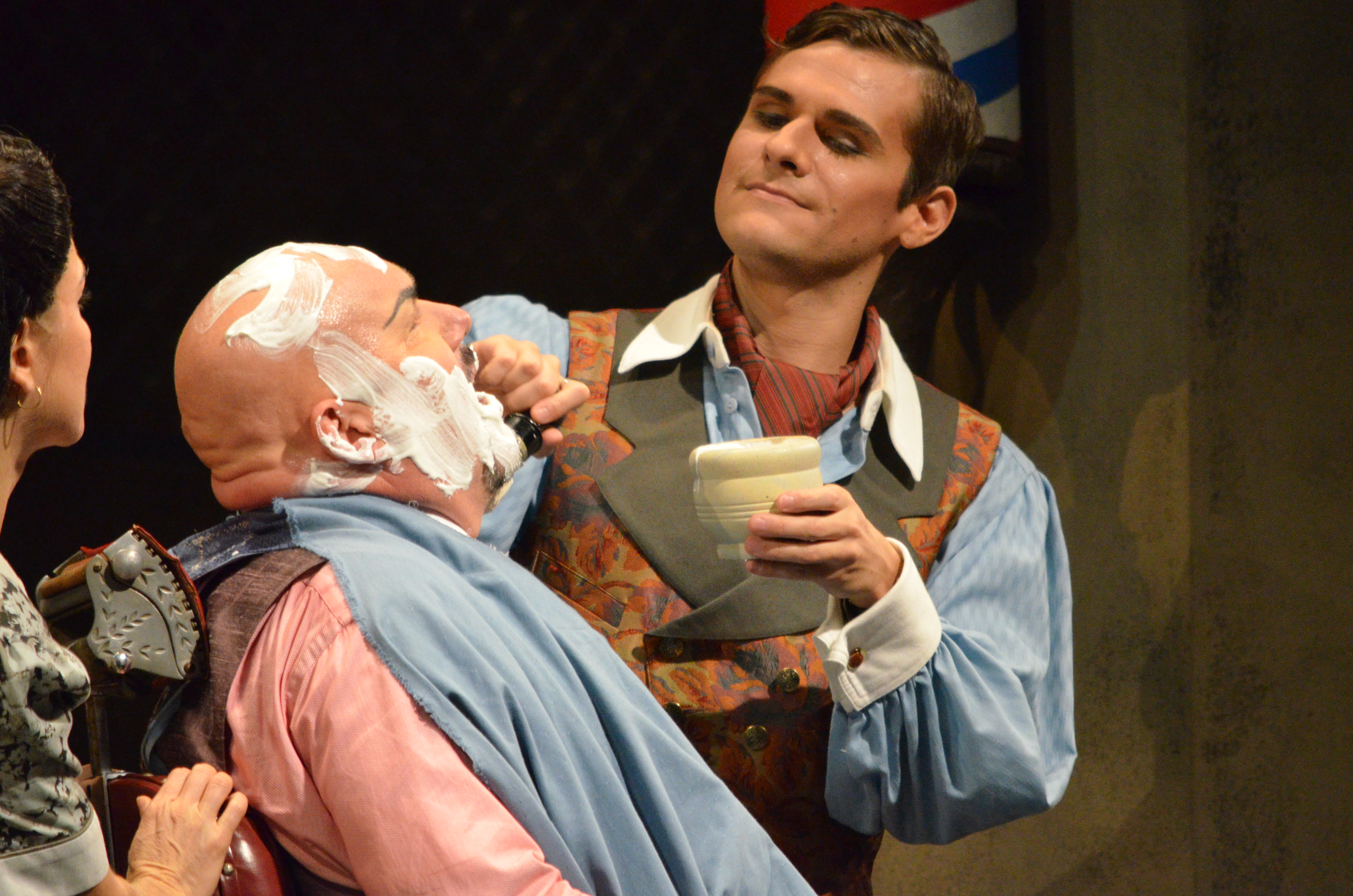 November 14–December 5, 2015 Rosina: Megan Marino, Hilary Ginther Count Almaviva: Andrew Owens, Javier Abreu Figaro: David Pershall, Brian James Myer Dr. Bartolo: Kevin Short, Kevin Glavin Don Basilio: Alex Soare Berta: Eliza Bonet Fiorello: Nicholas Ward Ambrogio: Edgar Miguel Abréu